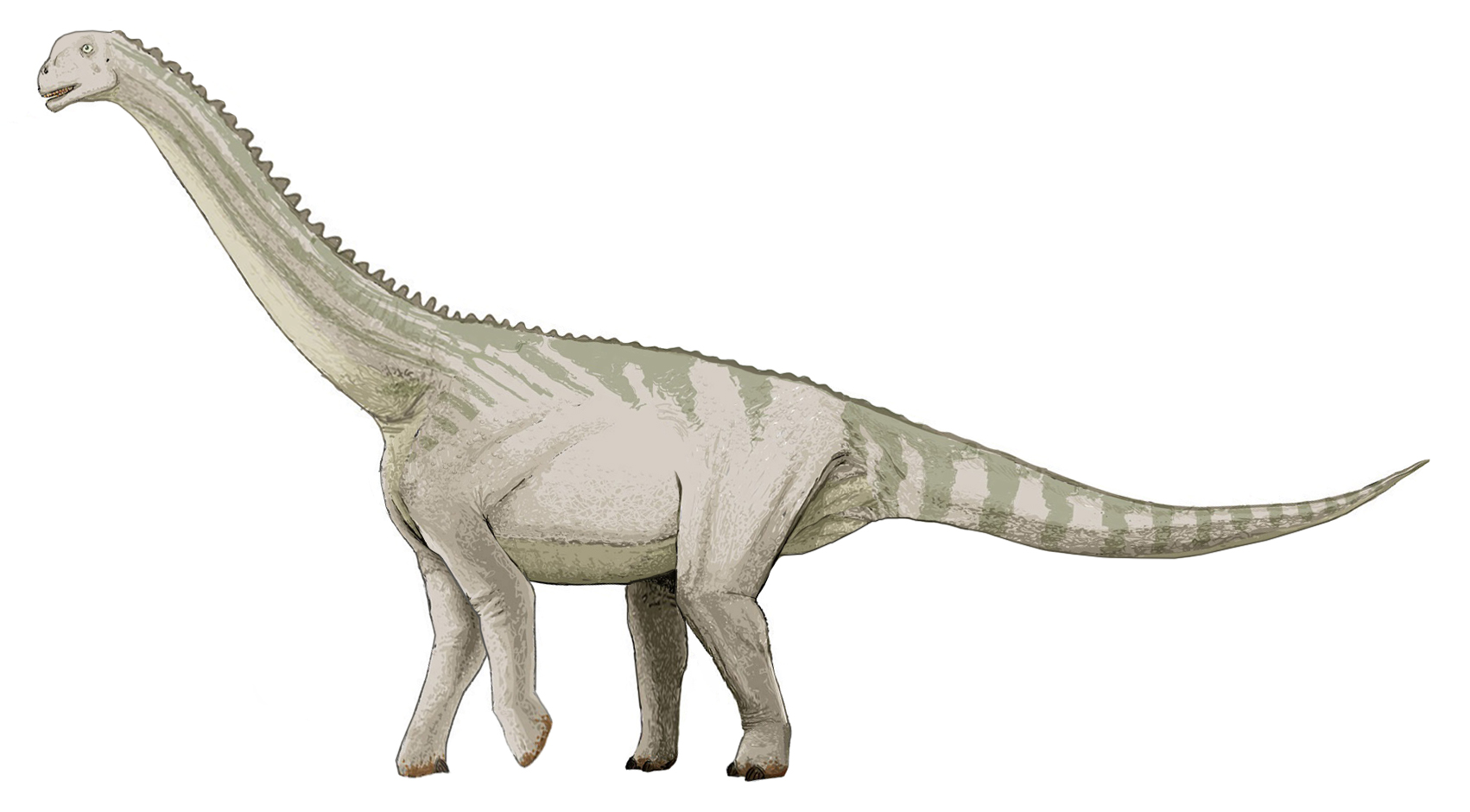 bellusaurus illustration by me user debivort october 2007